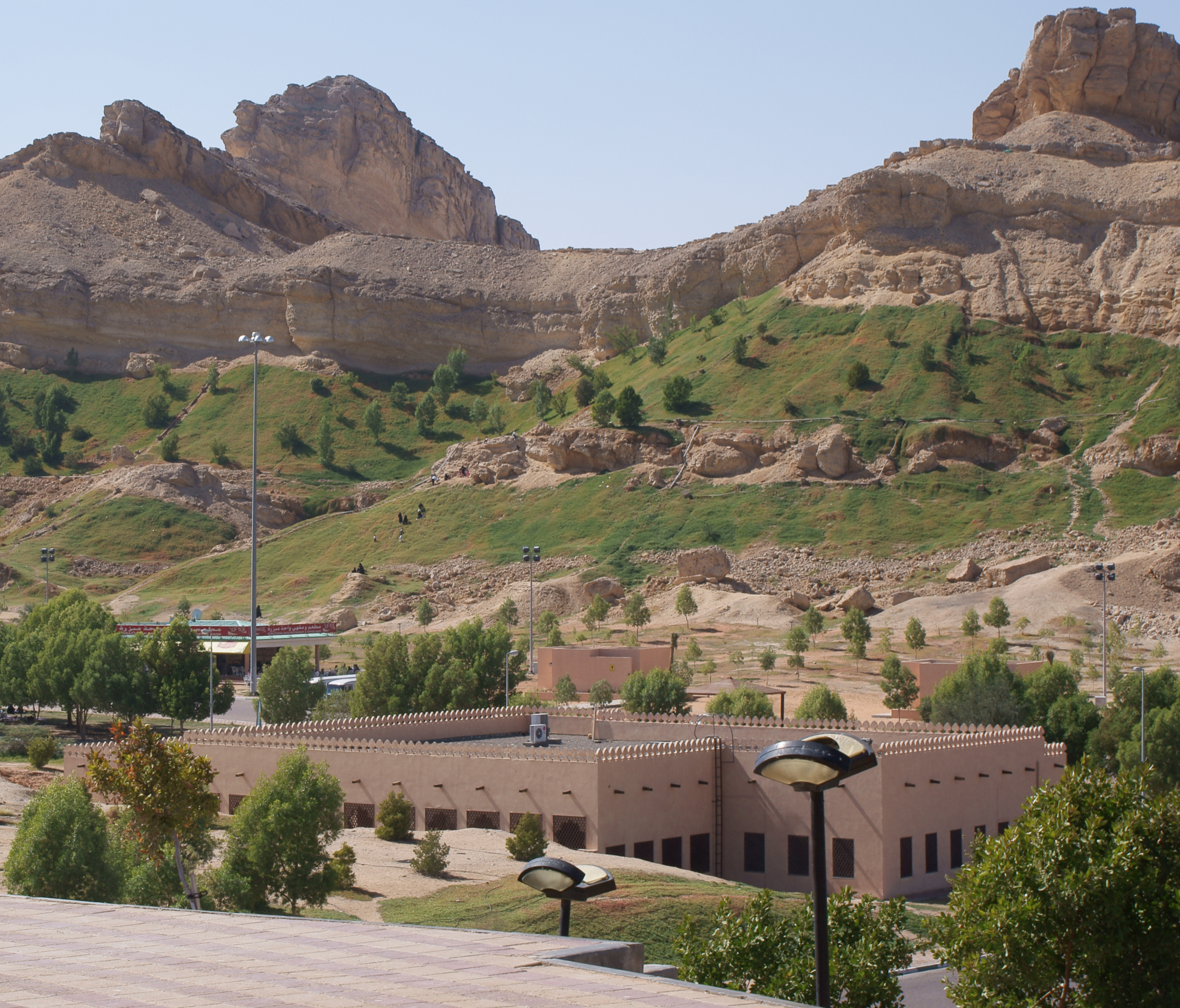 Oasis of Green Mubazzarah near Al Ain